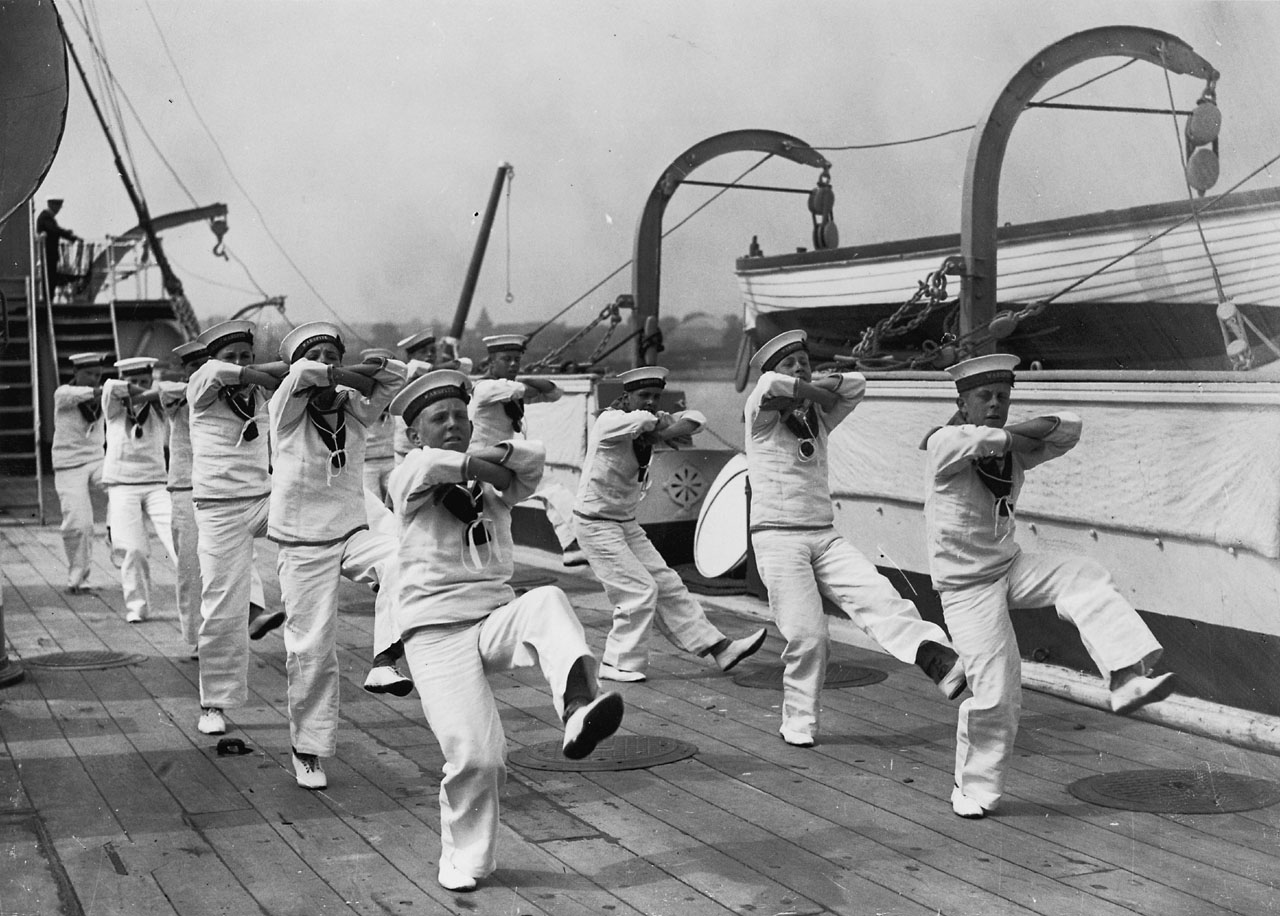 'Warspite' cadets dancing the hornpipe. National Maritime Museum Reproduction ID: H6381 Maker: Associated Press Date: 1928